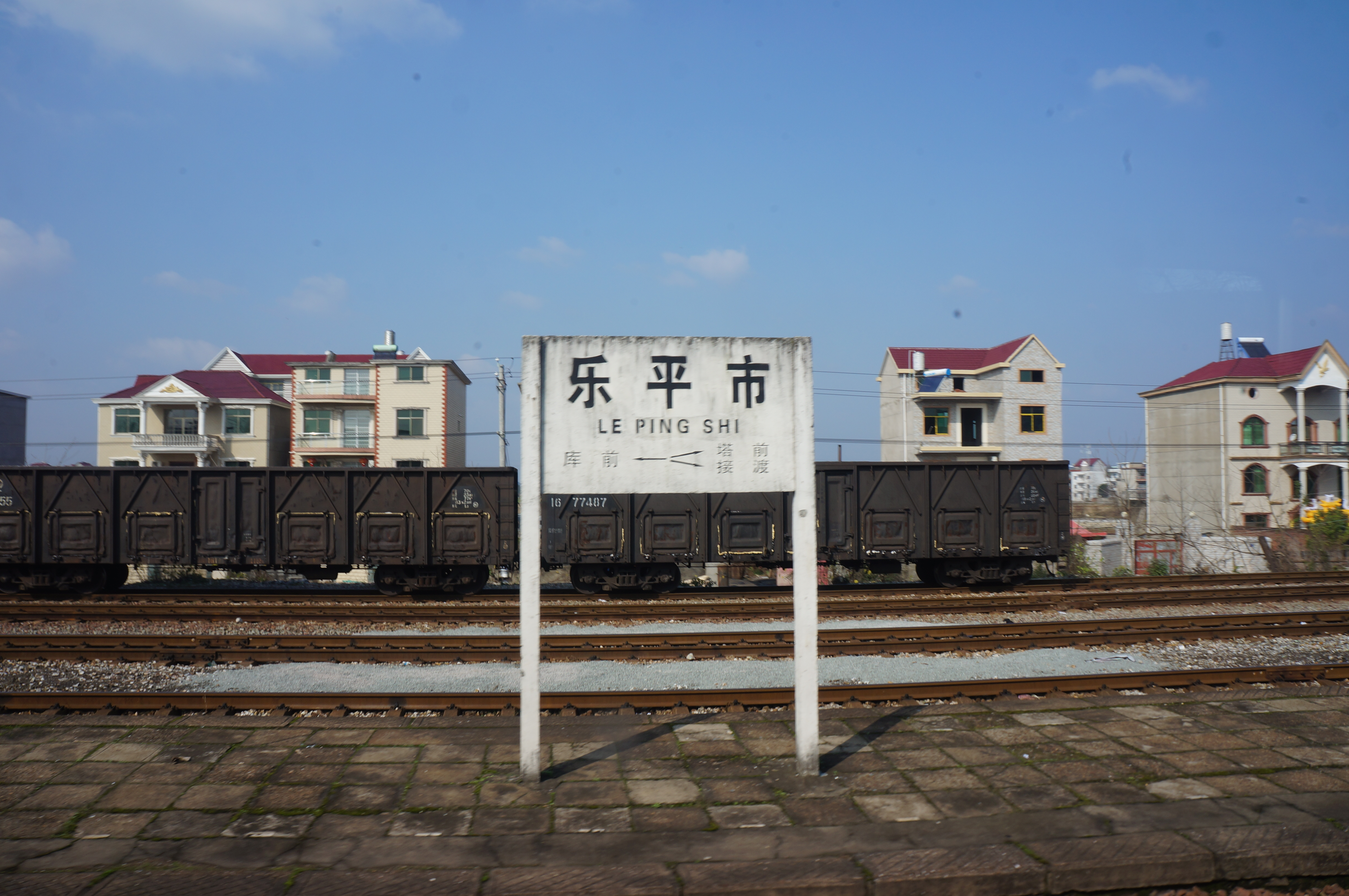 201612 Nameboard of Lepingshi Station, I love the name of Jiedu